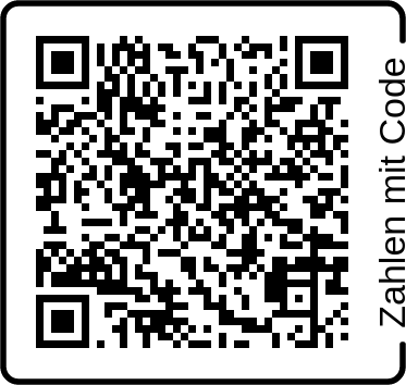 This sample QR code enables the payment of 1 EUR to the Austrian Red Cross